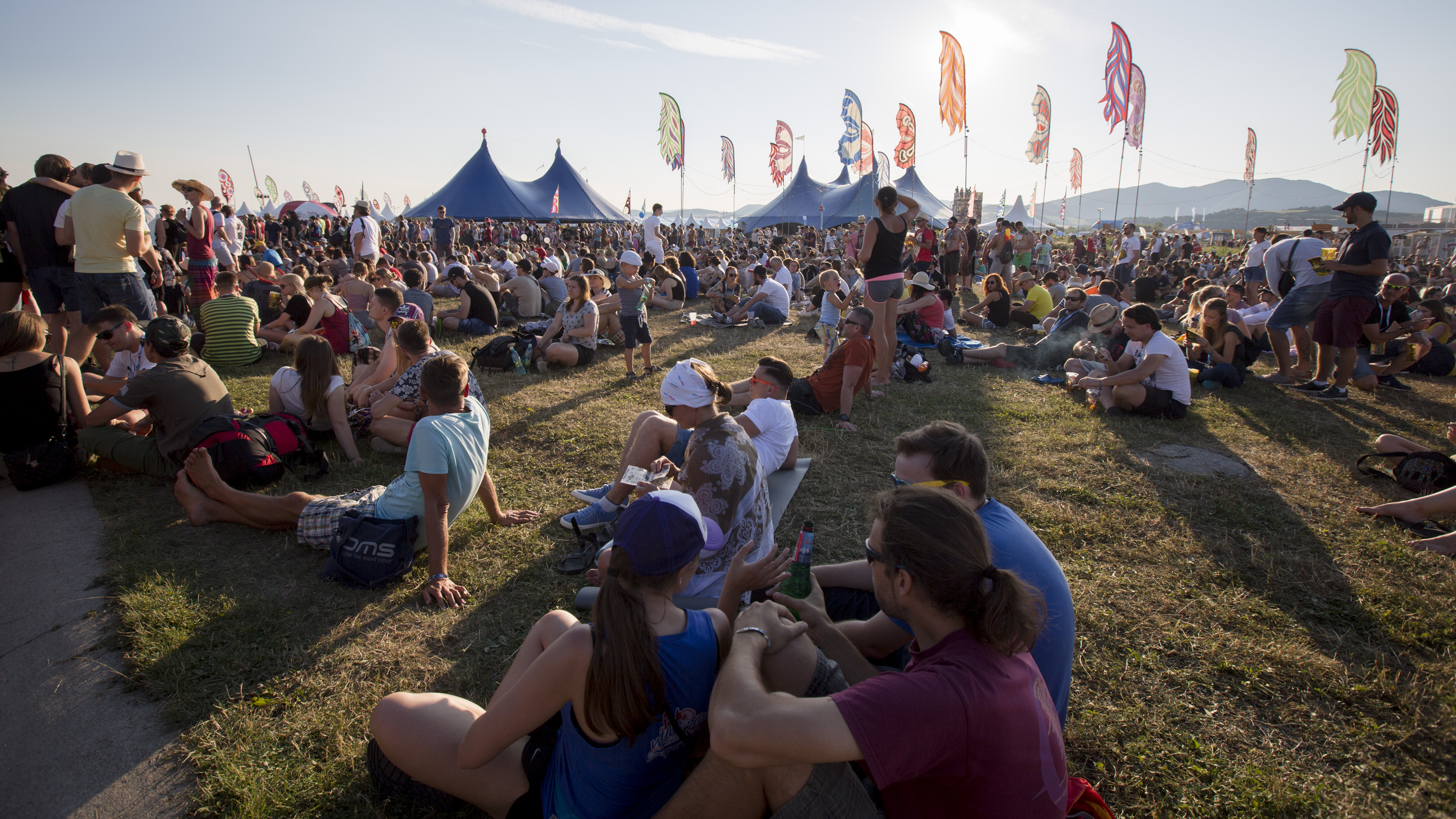 Pohoda Festival 2017